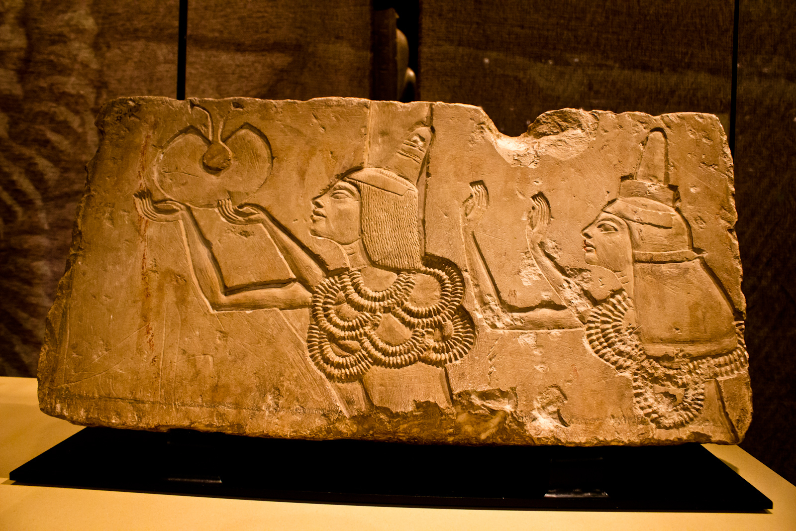 A limestone relief block depicts Ay receiving the gold of honor originally from his El-Amarna tomb during the reign of king Akhenaten. Ay would later take the throne and succeed Tutankhamun as the second last 18th dynasty New Kingdom pharaoh of Egypt. This photo was taken at the King Tut exhibition at the Pacific Science Center in Seattle, Washington State, USA.